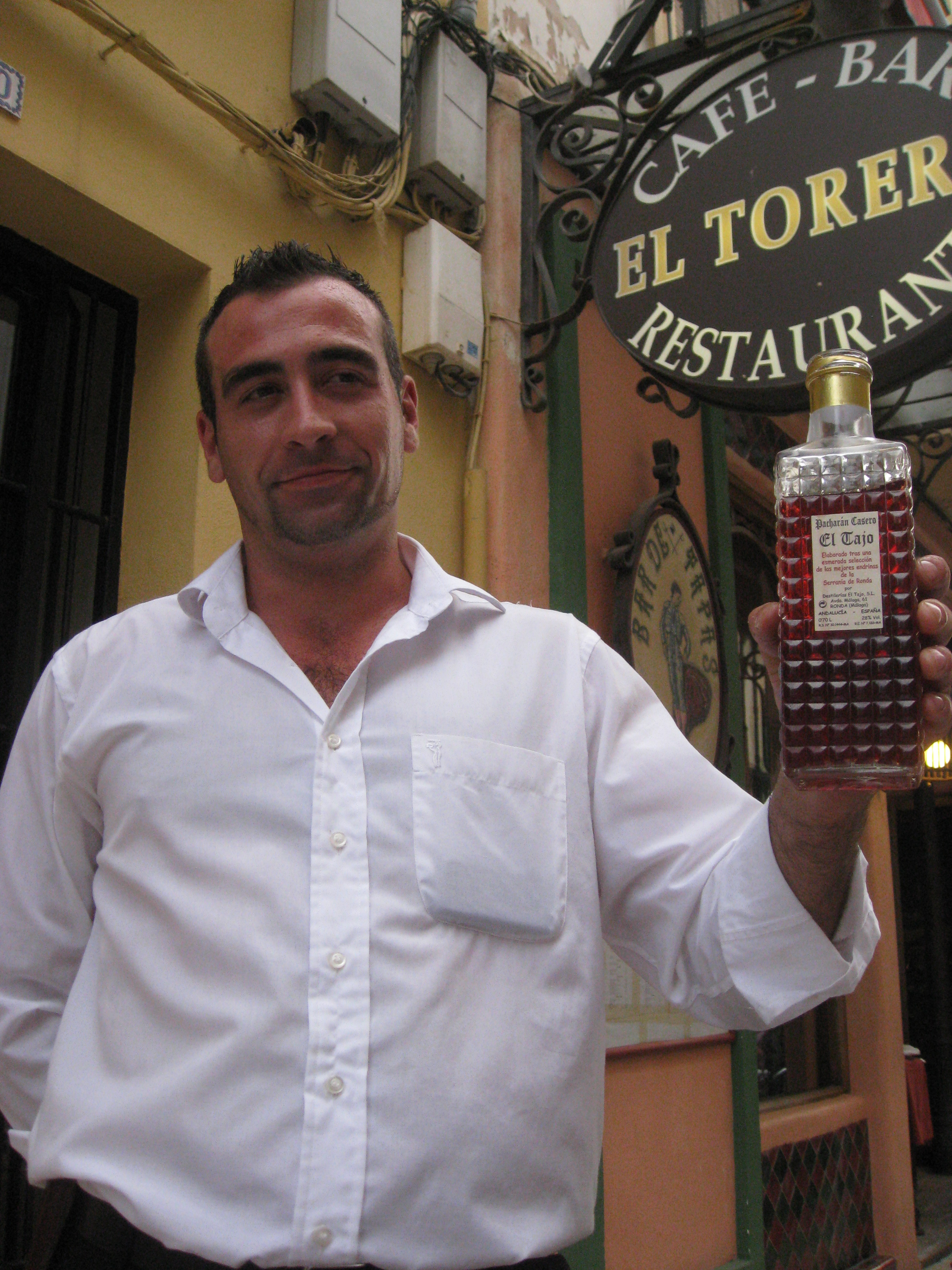 Spanish waiter serving a bottle of Patxaran liquor. Town of Ronda, Andalusia